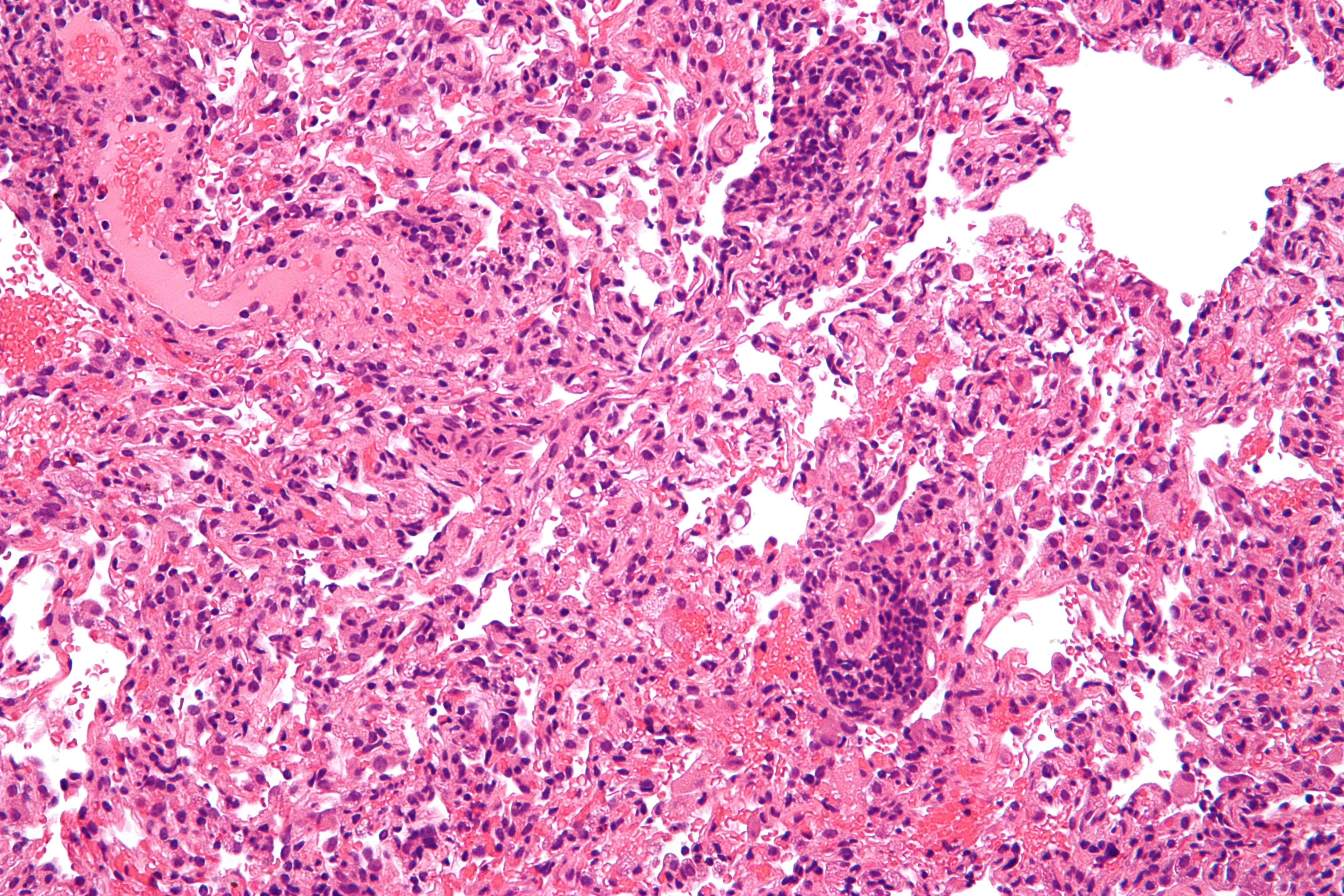 High magnification micrograph of lung transplant rejection. Lung biopsy. H&E stain. Features: Perivascular lymphocytic infiltrate. +/- Macrophages, eosinophils. +/- Neutrophils. Related images Intermed. mag. Very high mag.